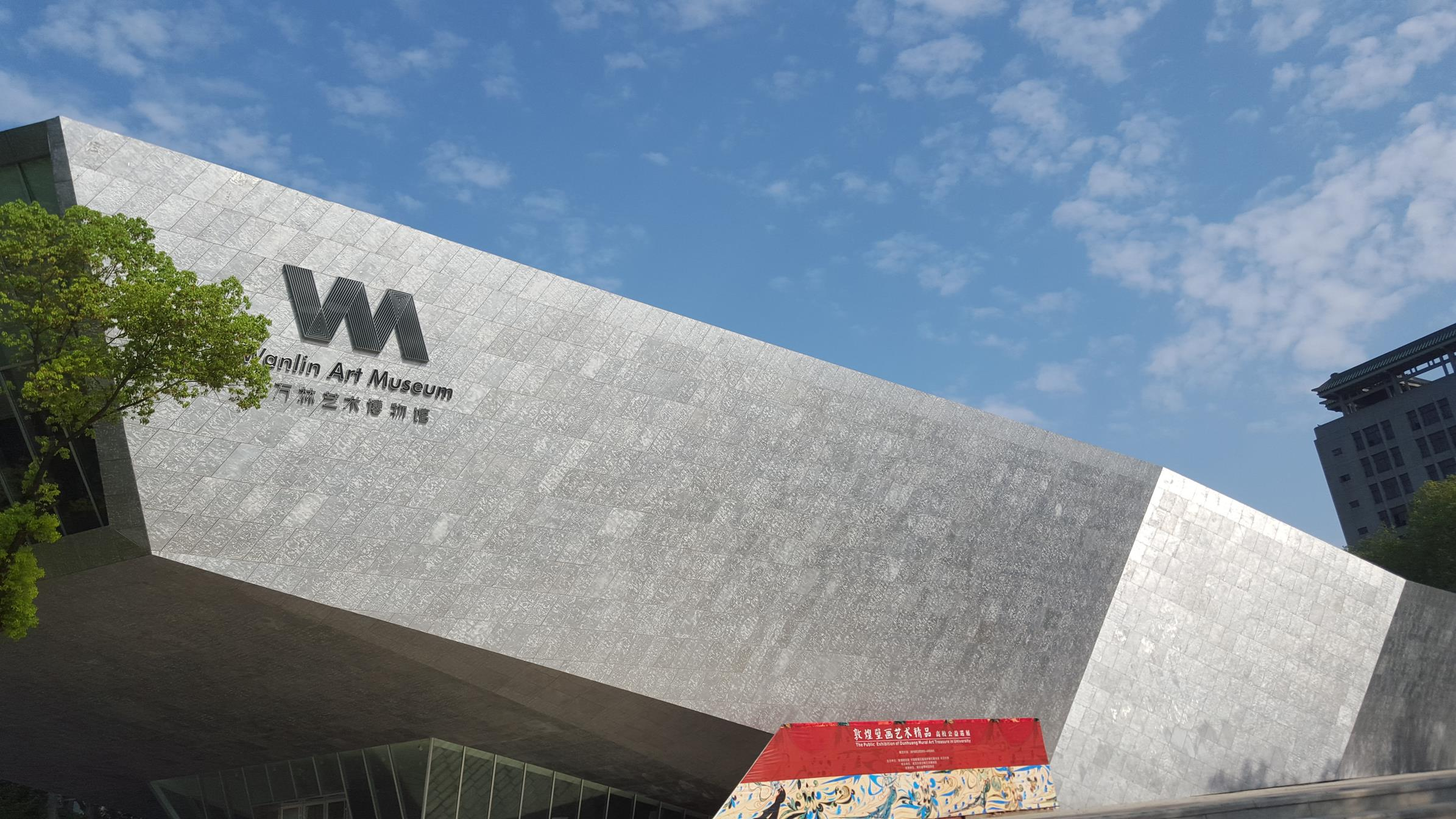 Wanlin Art Museum, Wuhan University